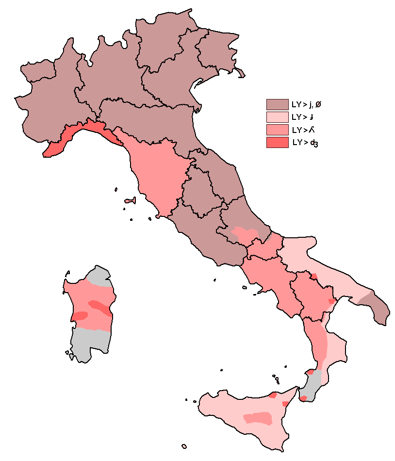 Different possible outcomes of lateral palatal phoneme in modern Italy